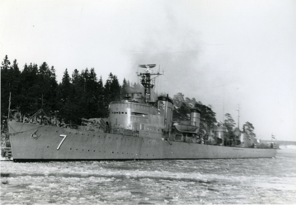 The Swedish destroyer HMS Malmö.